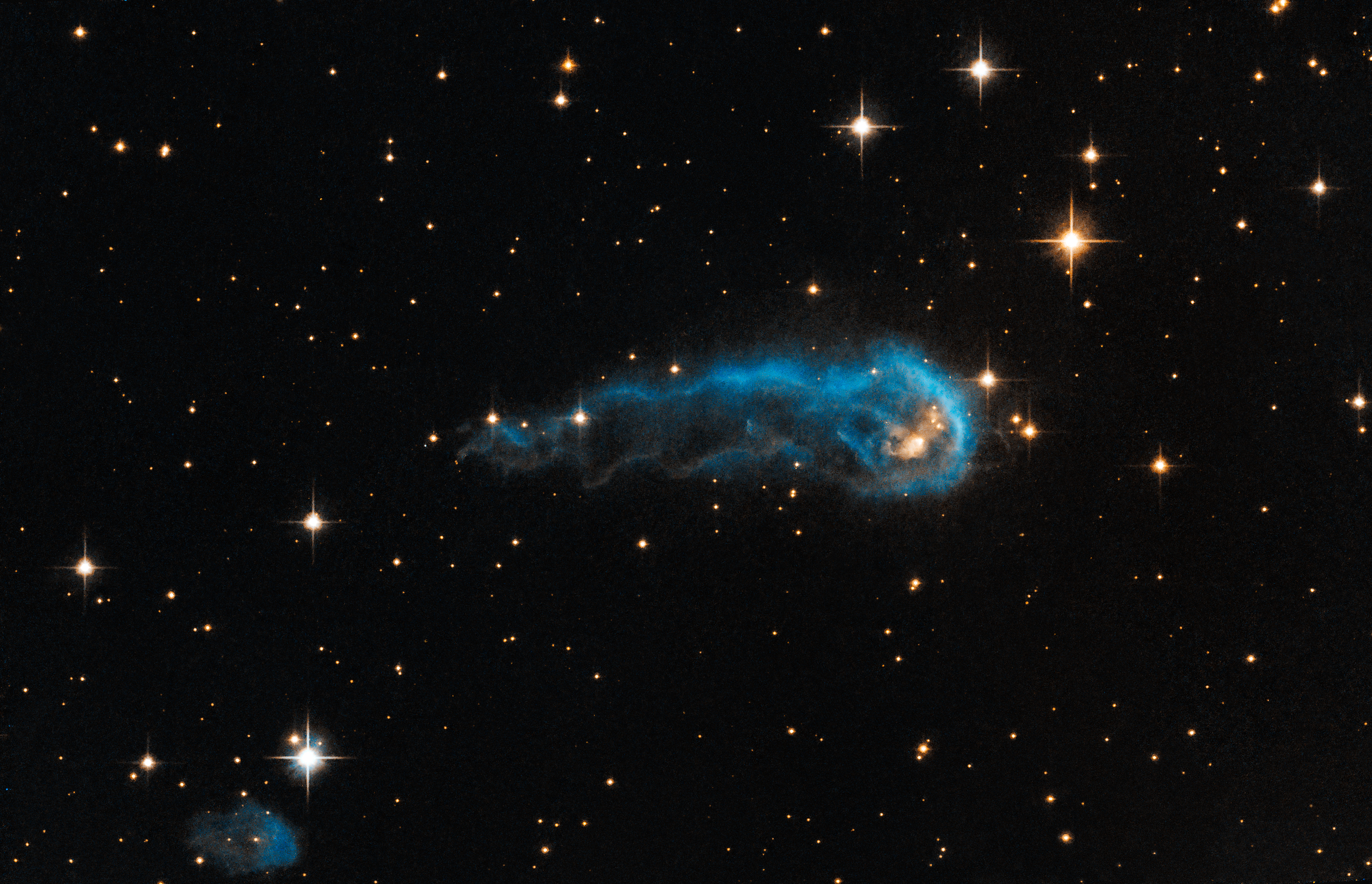 This light-year-long knot of interstellar gas and dust resembles a caterpillar on its way to a feast. But the meat of the story is not only what this cosmic caterpillar eats for lunch, but also what's eating it. Harsh winds from extremely bright stars are blasting ultraviolet radiation at this "wanna-be" star and sculpting the gas and dust into its long shape. The culprits are 65 of the hottest, brightest known stars, classified as O-type stars, located 15 light-years away from the knot, towards the right edge of the image. These stars, along with 500 less bright, but still highly luminous, B-type stars make up what is called the Cygnus OB2 association. Collectively, the association is thought to have a mass more than 30 000 times that of our Sun. The caterpillar-shaped knot, called IRAS 20324+4057, is a protostar in a very early evolutionary stage. It is still in the process of collecting material from an envelope of gas surrounding it. However, that envelope is being eroded by the radiation from Cygnus OB2. Protostars in this region should eventually become young stars with final masses about one to ten times that of our Sun, but if the eroding radiation from the nearby bright stars destroys the gas envelope before the protostars finish collecting mass, their final masses may be reduced. Spectroscopic observations of the central star within IRAS 20324+4057 show that it is still collecting material quite heavily from its outer envelope, hoping to bulk up. Only time will tell if the formed star will be a "heavy-weight" or a "light-weight" with respect to its mass. This image of IRAS 20324+4057 is a composite of Hubble Advanced Camera for Surveys (ACS) data taken in green and infrared light in 2006, and ground-based hydrogen data from the Isaac Newton Telescope in 2003, as part of the IPHAS H-alpha survey. The object lies 4500 light-years away in the constellation of Cygnus (The Swan).